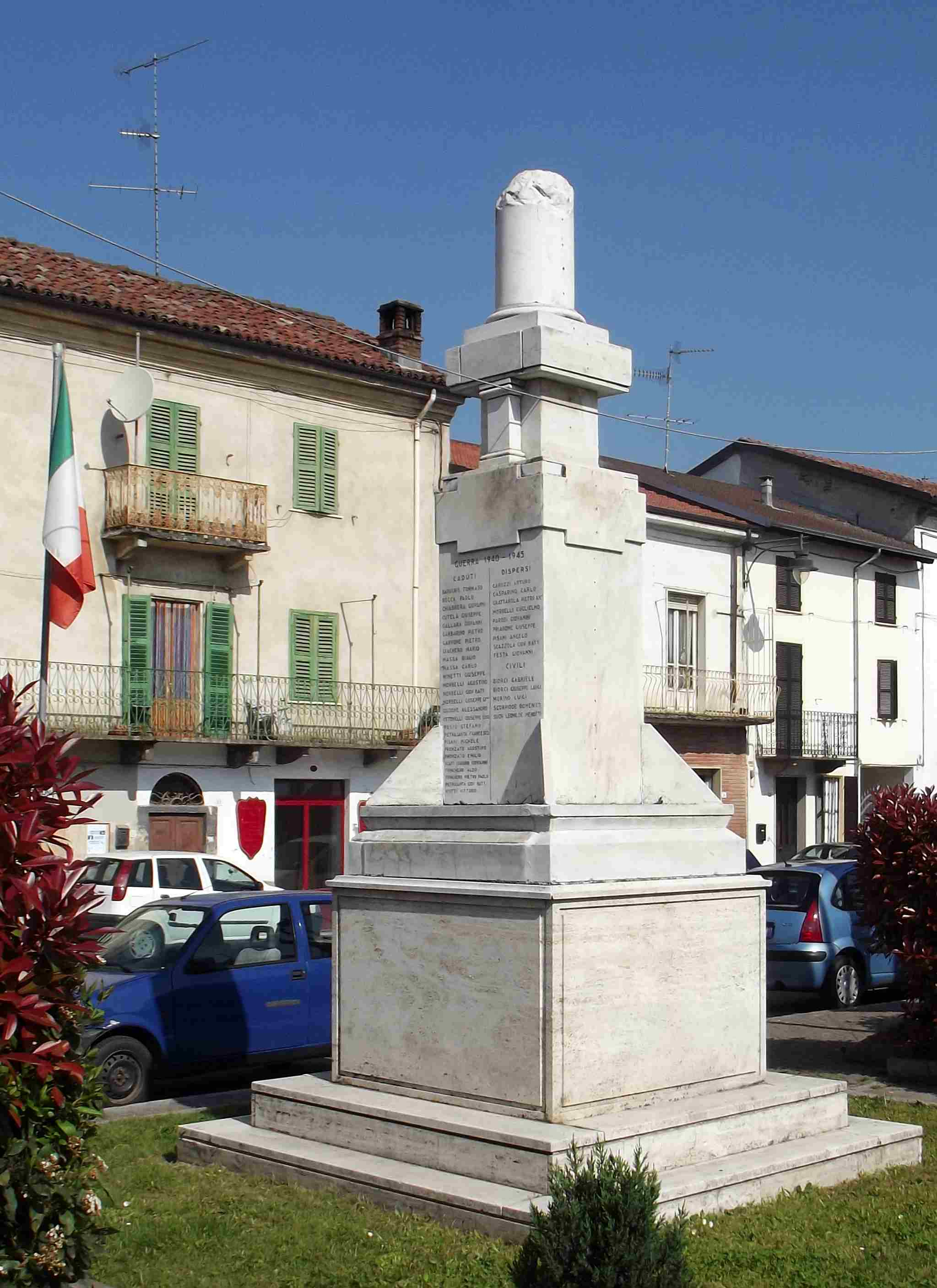 Rivalta Bormida (AL, Italy): war memorial